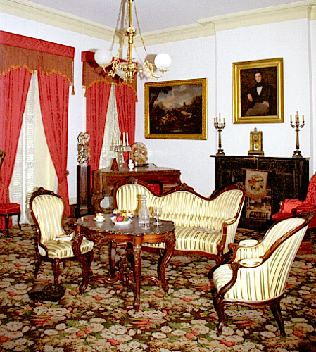 Inside the "1850s House" museum, New Orleans.